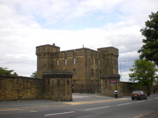 The Duke of Wellington's Regiment's HQ